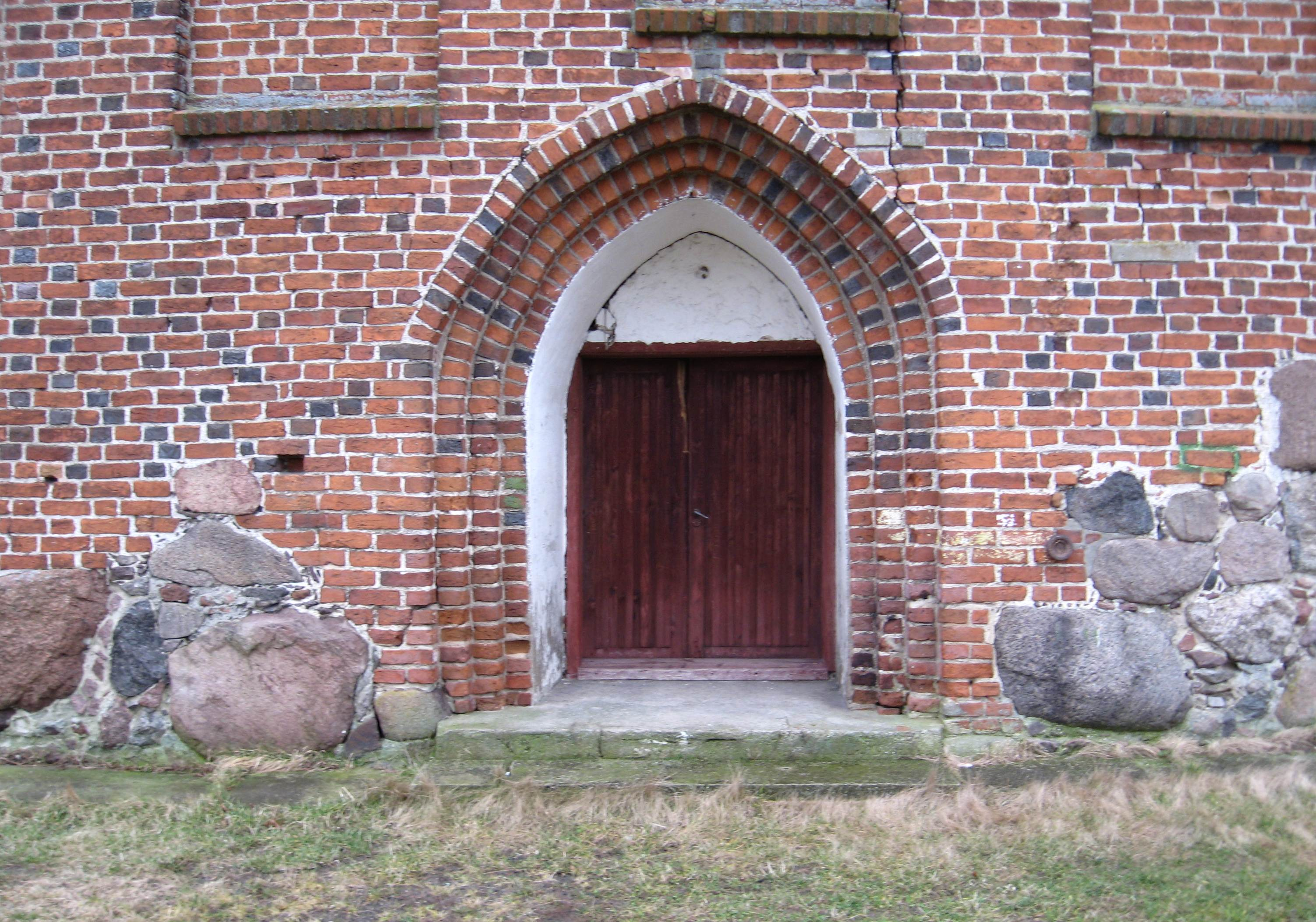 Garbno - Google Maps - Google Earth